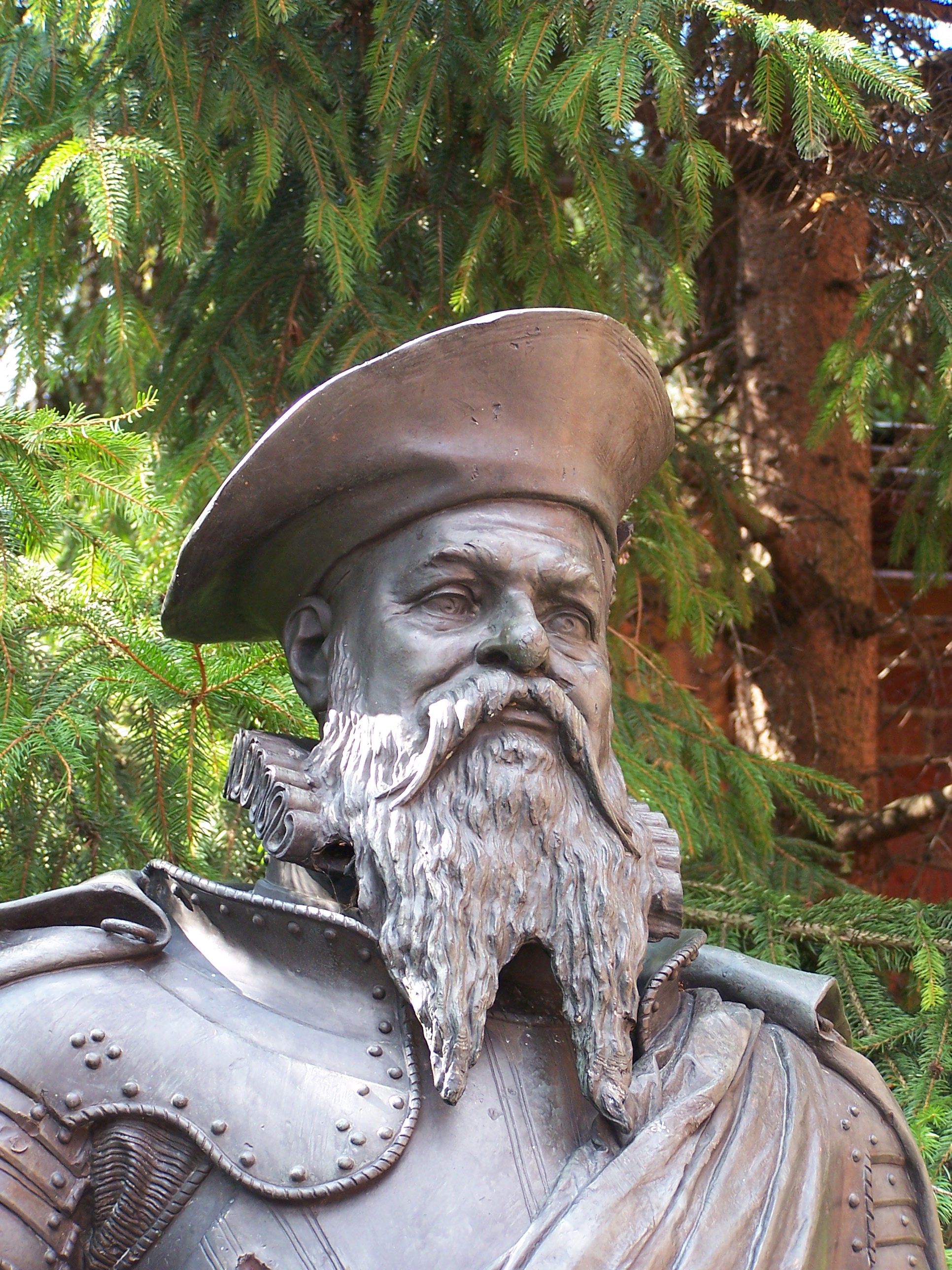 Statue of Albrecht von Hohenzollern-Ansbach in castle of Malbork.